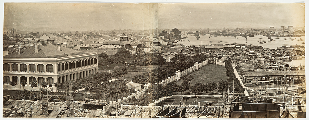 Caleb Tangier Smith and George Archer went into partnership in 1861 with an office in D'Aguilar Street, Hong Kong with a branch office in Canton run by E.H. Burgy.